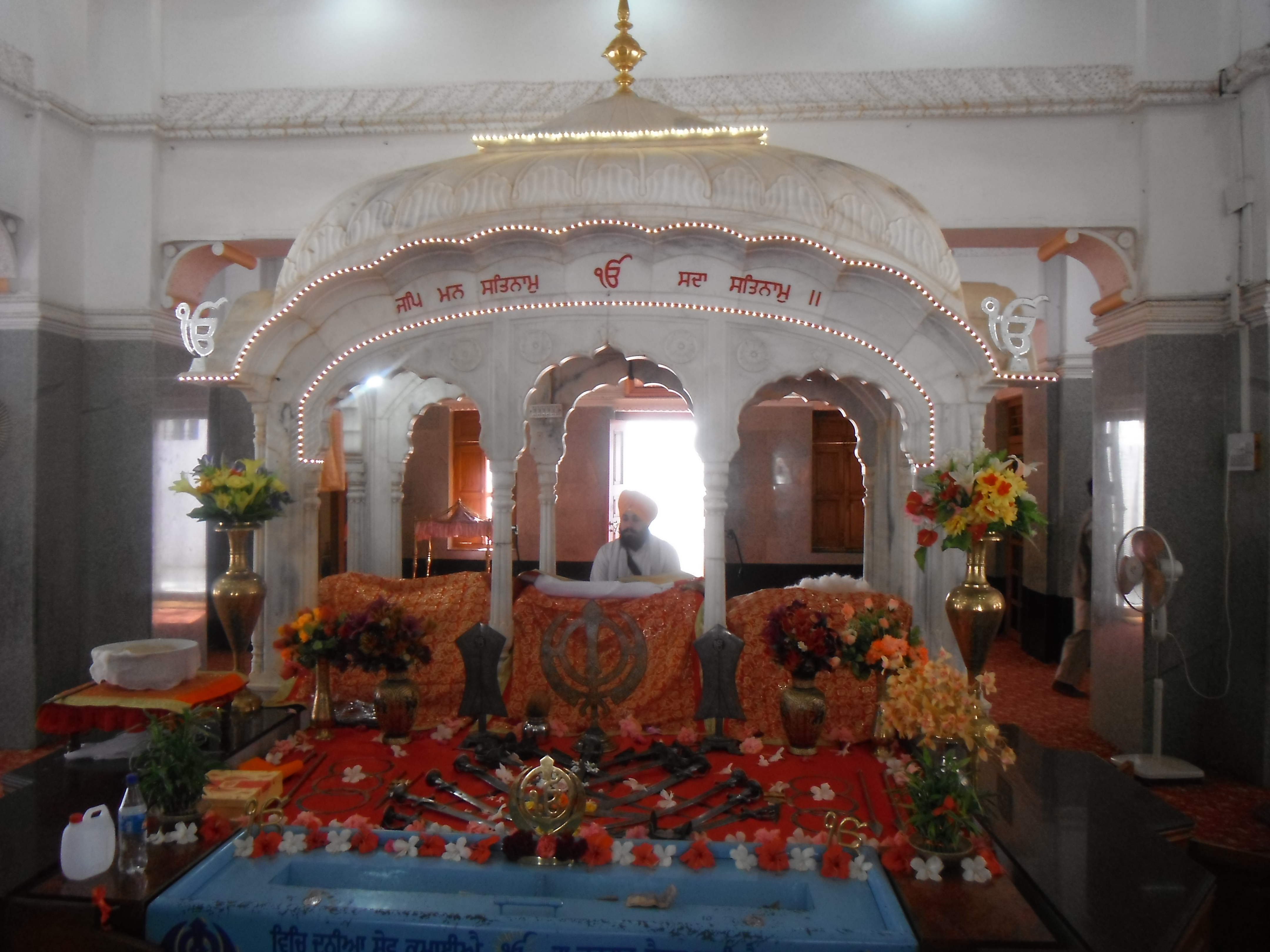 Gurudwara